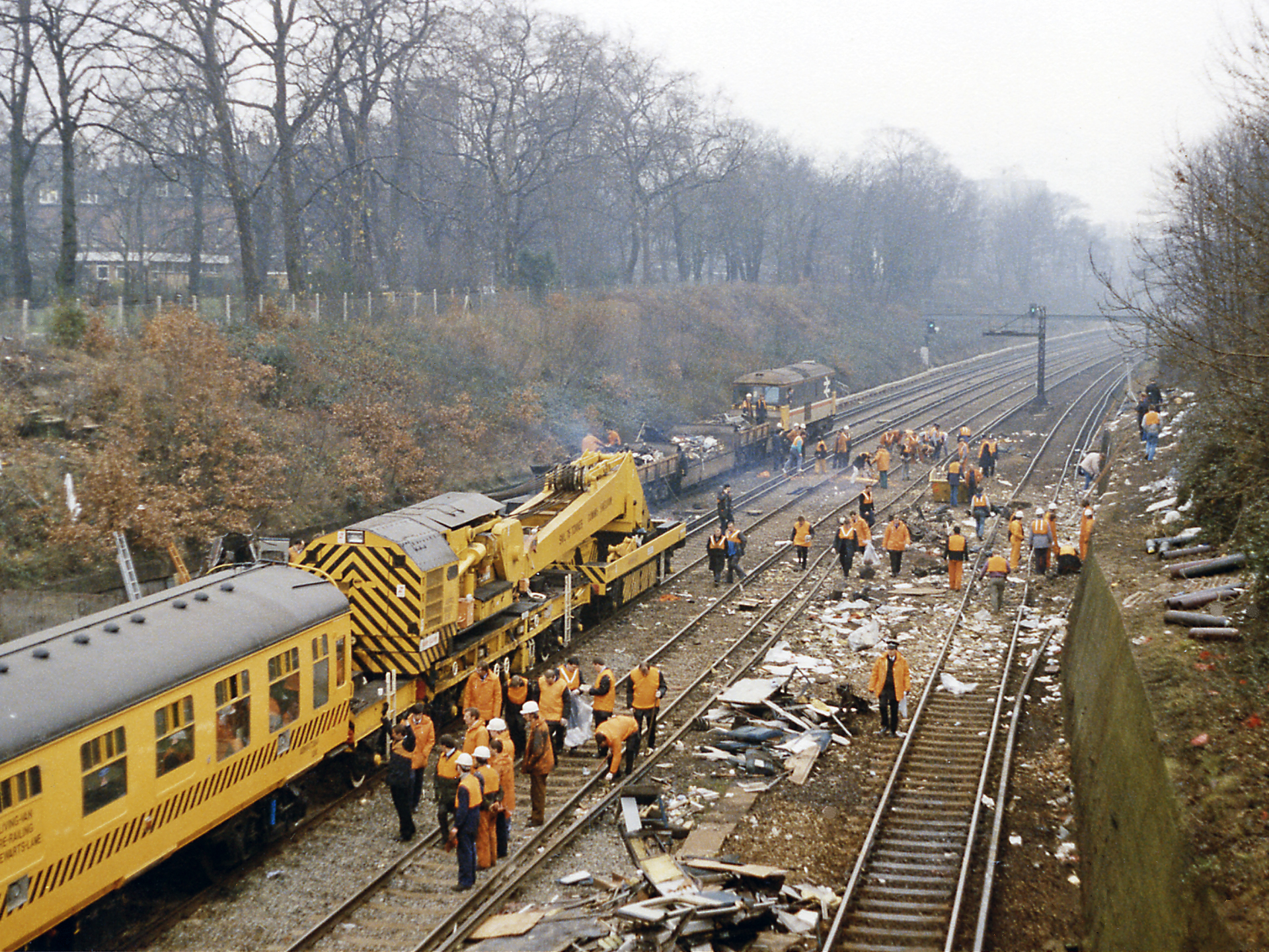 Clearing up after the December 1988 crash west of Clapham Junction. View SW towards Wimbledon etc. from the Battersea Rise bridge/Spencer Park Road on the day after a bad accident had occurred on the Up lines (nearest) at 08.10 the previous morning, in which 35 people were killed and over 500 injured. Owing to an installation fault with the signalling, a crowded Up train had run into the rear of another and the wreckage was then struck by a Down empty train. The view shows all four ex-LSWR tracks of the main Waterloo - Wimbledon - Woking and the West line blocked by the breakdown-train men at work more than 24 hours afterwards. The numerous casualties had been brought up the bank on the right to Spencer Park Road. (See also TQ2674 : Clearing up after the December 1988 crash west of Clapham Junction).